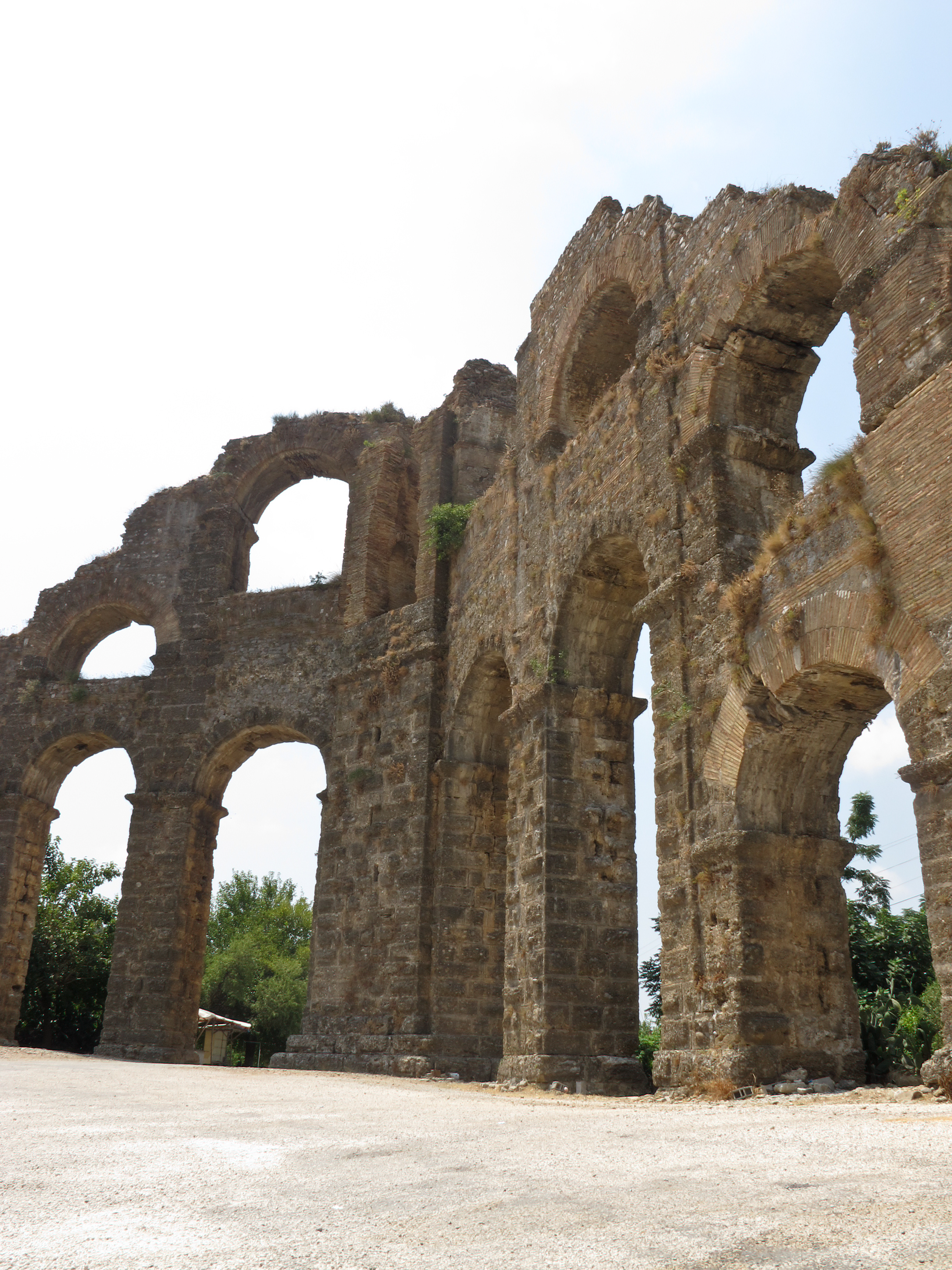 Aspendos Aquaduct in modern-day Turkey.